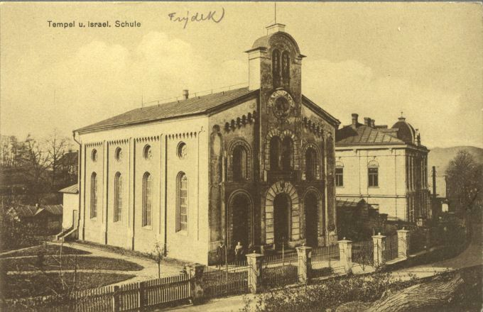 Synagogue in Frýdek (CZ) in years 1865-1939, behind: jewish school